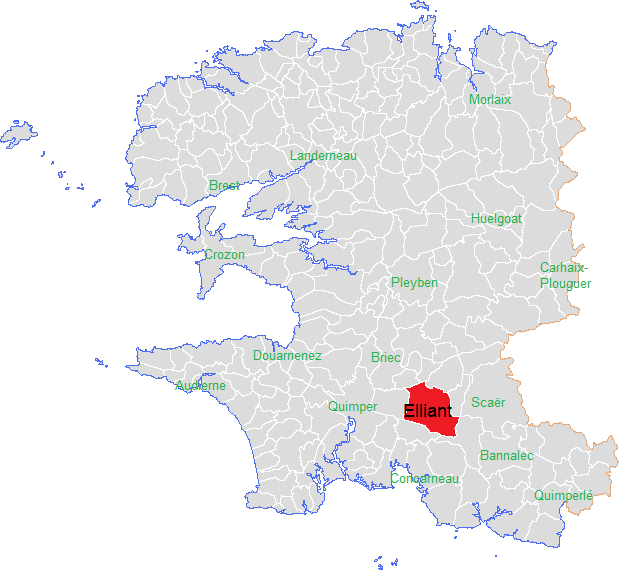 placement Elliant in departement Finistère